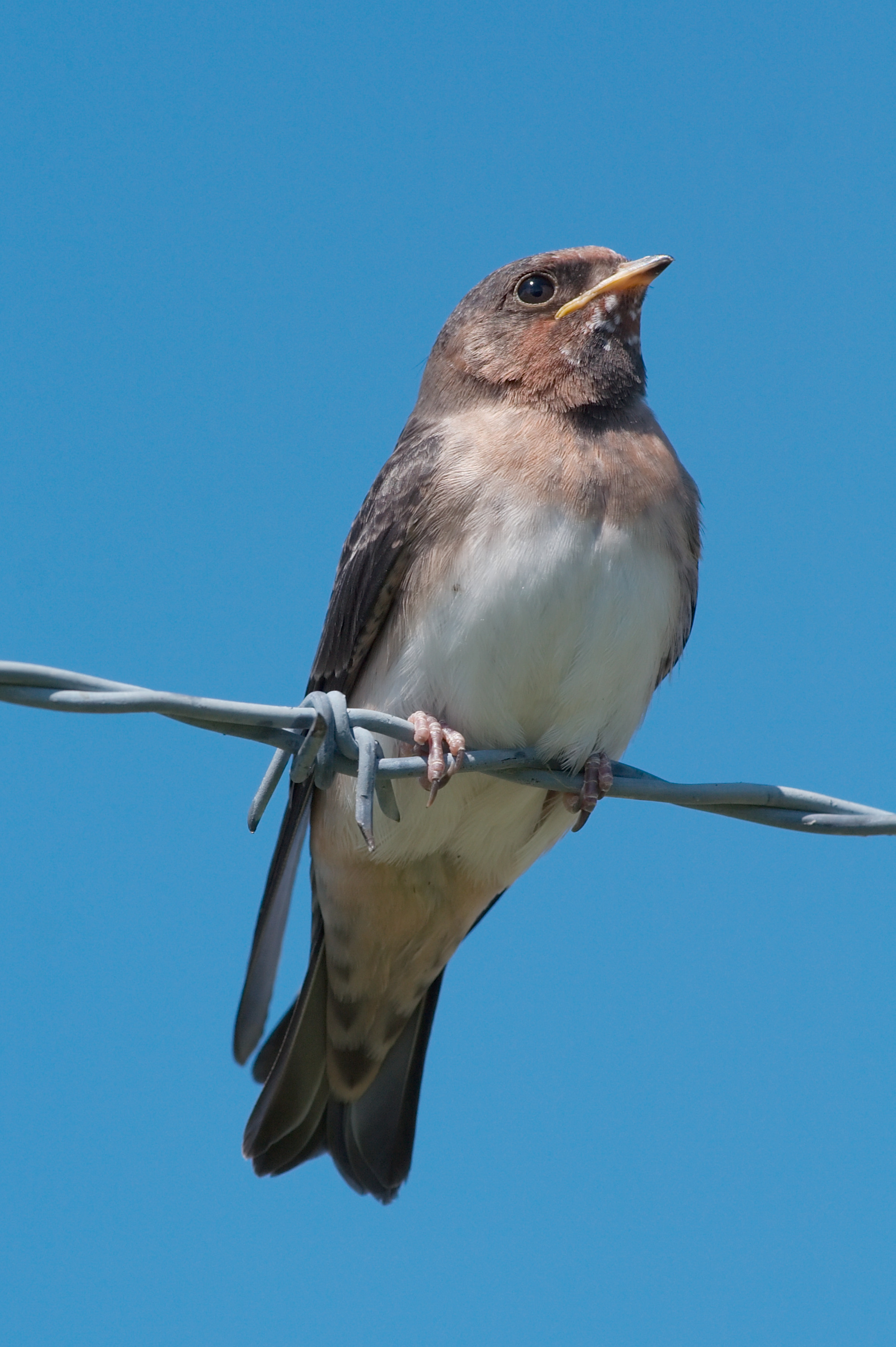 Cliff swallow (Petrochelidon pyrrhonota), taken in Milwaukee, Wisconsin